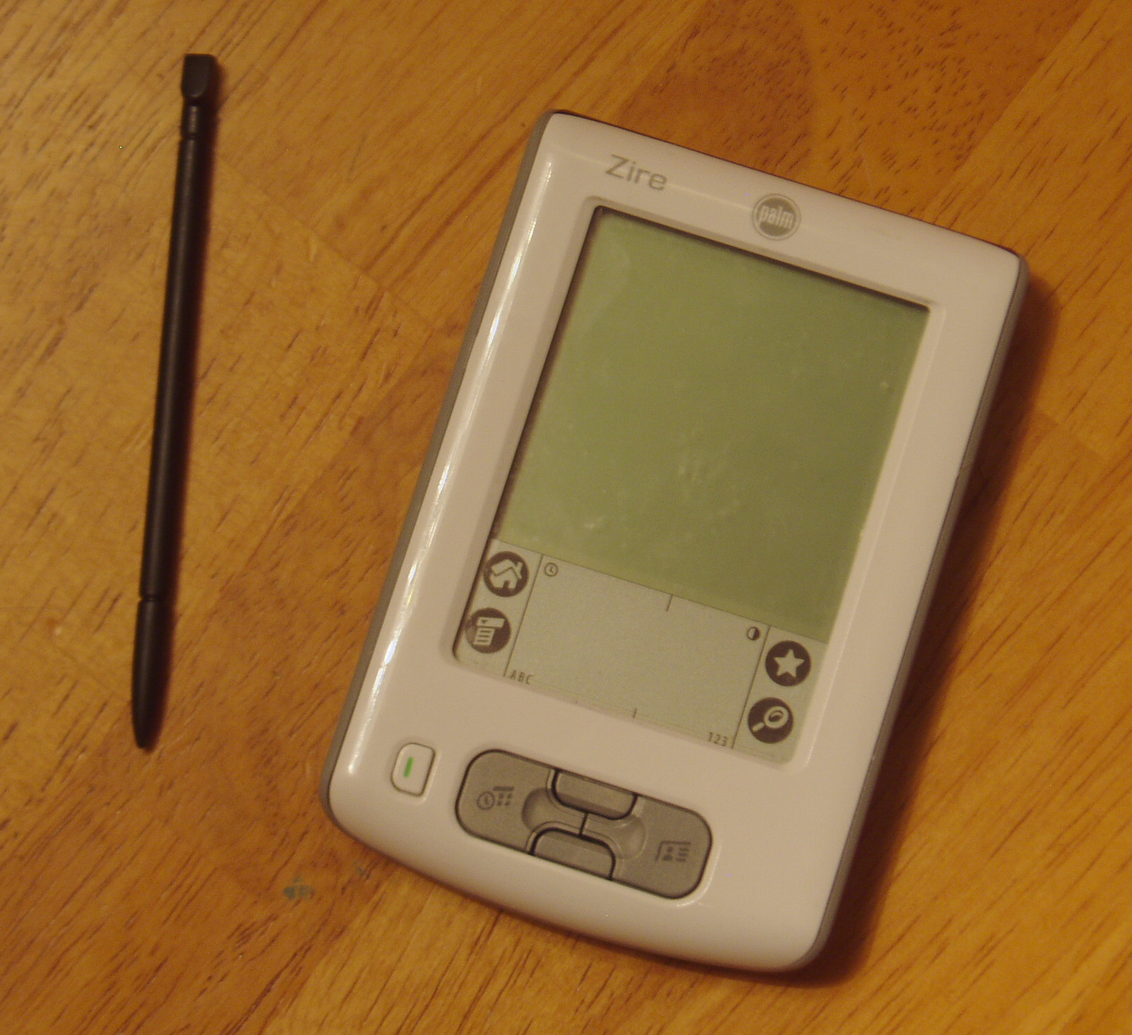 A picture of the Palm Zire.